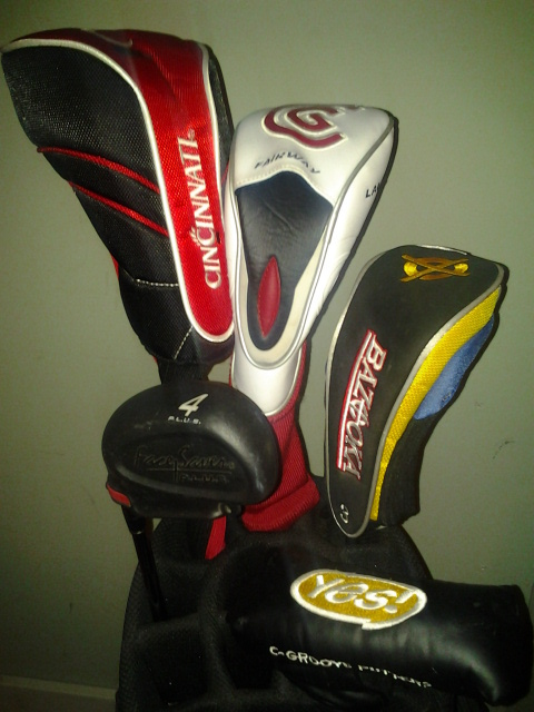 Golf Club Head Covers In Use. Covers shown (from top left to bottom right) are for: Driver, Fairway Wood, Hybrid, Iron and Putter.